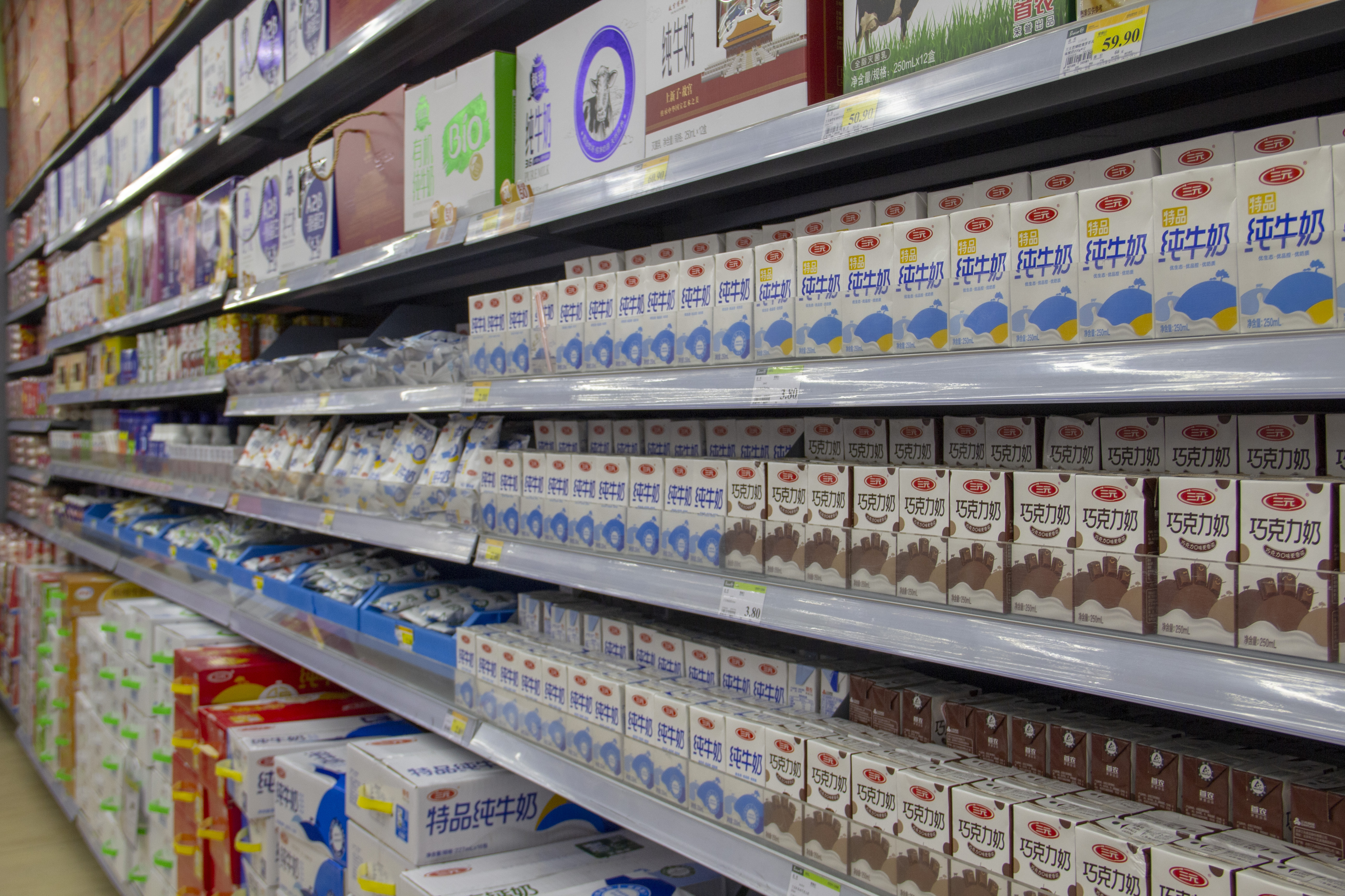 milk on a shelf